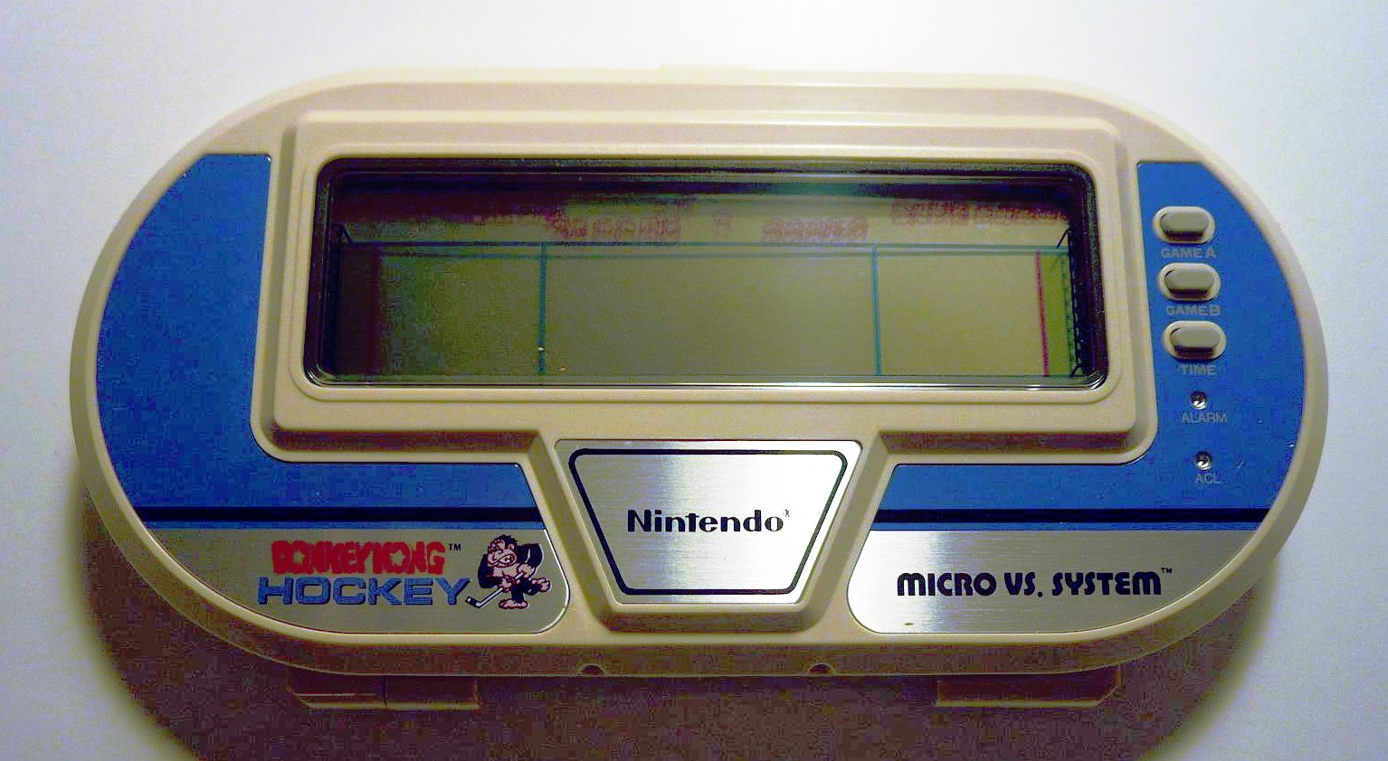 Donkey Kong Hockey - Game&Watch - Nintendo